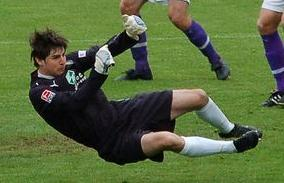 Goal Keeper Stephan Flauder from FC Erzgebirge Aue